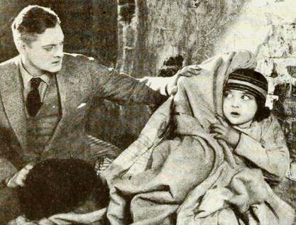 Still from the American film Boomerang Bill (1922) with Lionel Barrymore and Miriam Battista, on page 58 of the March 1922 Photoplay.